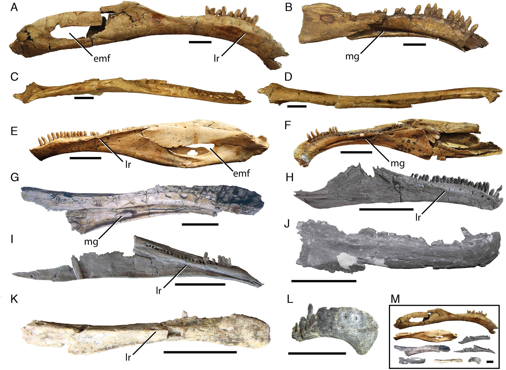 Variation in therizinosaurian mandibular morphology. Segnosaurus galbinensis MPC-D 100/80 right hemimandible in (A) lateral, (C) dorsal, and (D) ventral views and (B) left hemimandible in medial view; Erlikosaurus andrewsi (MPC-D 100/111) (E) left hemimandible in lateral view and (F) right hemimandible in medial view (D); (G) Alxasaurus elesitaiensis (IVPP 88402) left dentary in medial view; (H) Jianchangosaurus yixianensis (41HIII-0308A) right dentary in lateral view; reproduced and modified from Pu et al. (2013). (I) Beipiaosaurus inexpectus (IVPP V11559) left dentary in medial view; (J) Falcarius utahensis (UMNH VP 14529) right dentary in lateral view; (K) Eshanosaurus deguchiianus (IVPP V11579) right dentary in lateral view (L) Neimongosaurus yangi (LH V0001) right rostral dentary in lateral view; (M) shown to same scale. Abbreviations: emf, external mandibular fenestra; lr, labial ridge; mg, Meckelian groove. Scale bar equals 3 cm.